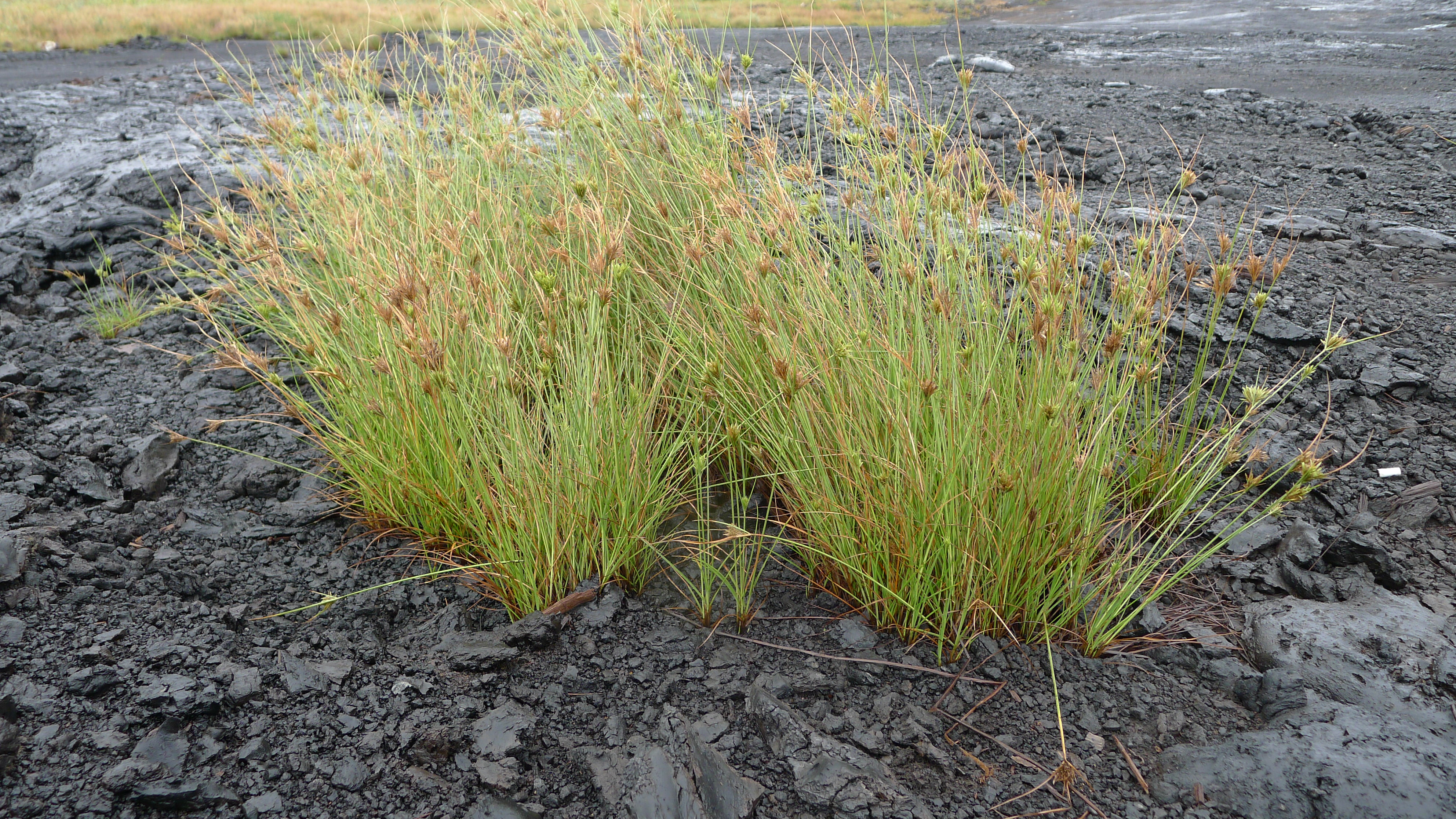 Pitch Lake near La Brea on the Island of Trinidad; view on vegetation on the surface.